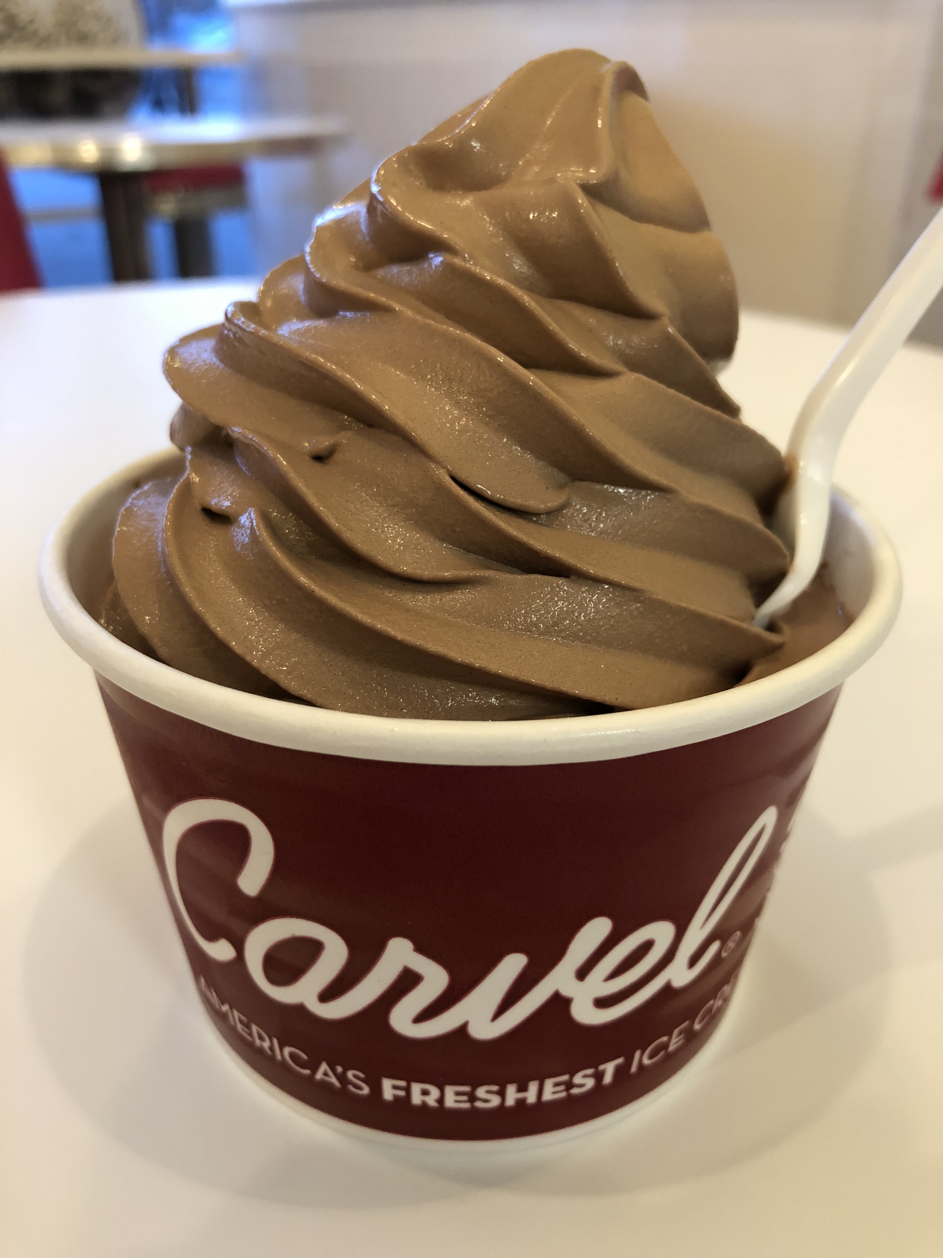 Large serving of chocolate soft-serve ice cream at the Carvel off of Denow Road in Hopewell Township, Mercer County, New Jersey